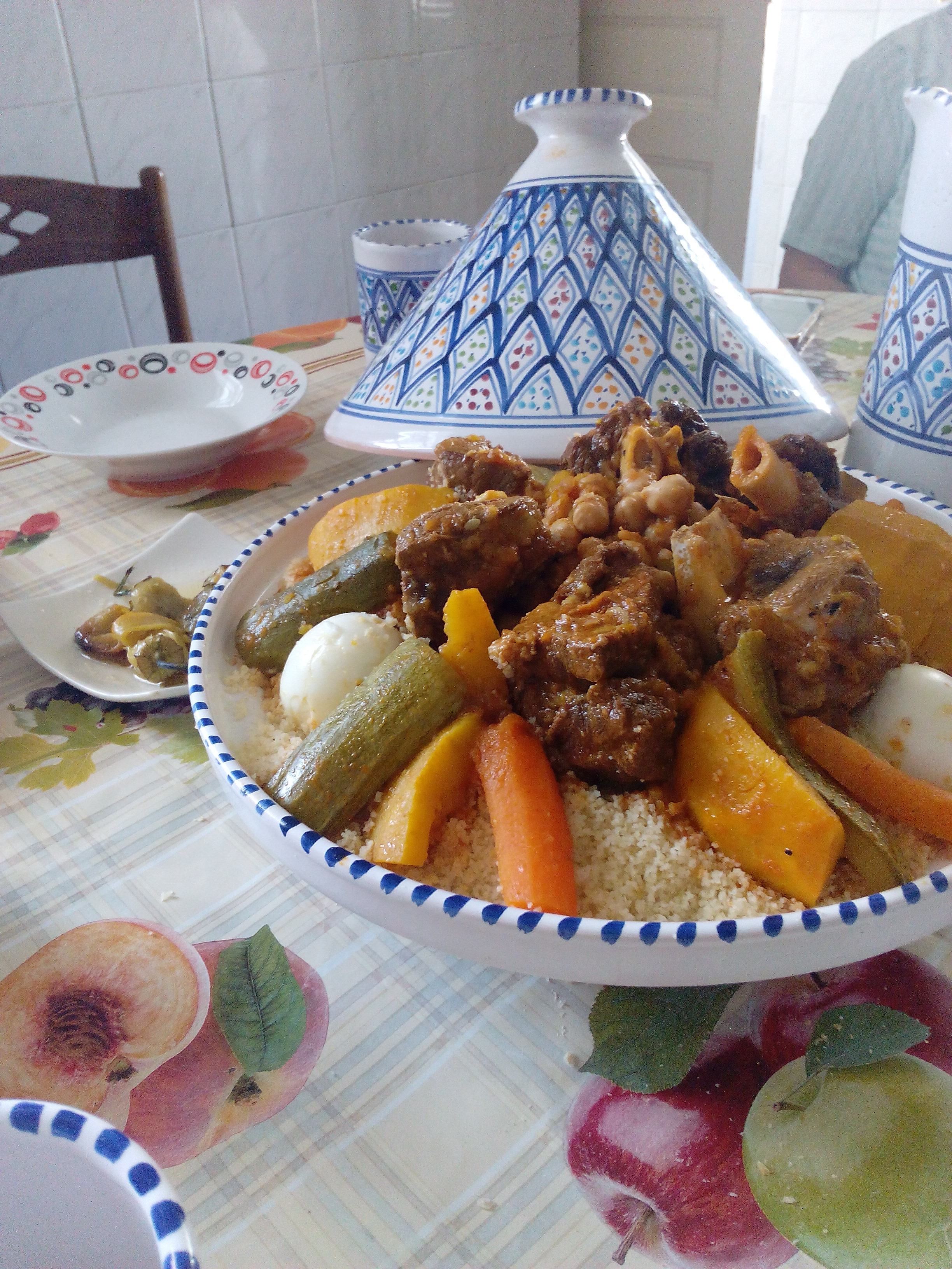 This is an image from Algeria